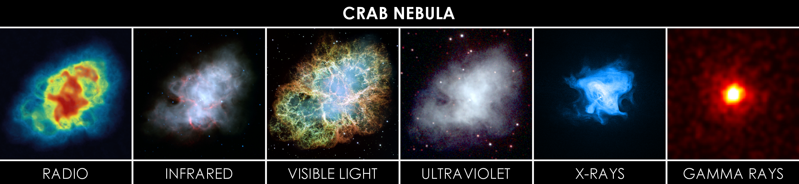 The Crab Nebula in radio, infrared, visible, ultraviolet, x-ray, and gamma ray wavelengths.